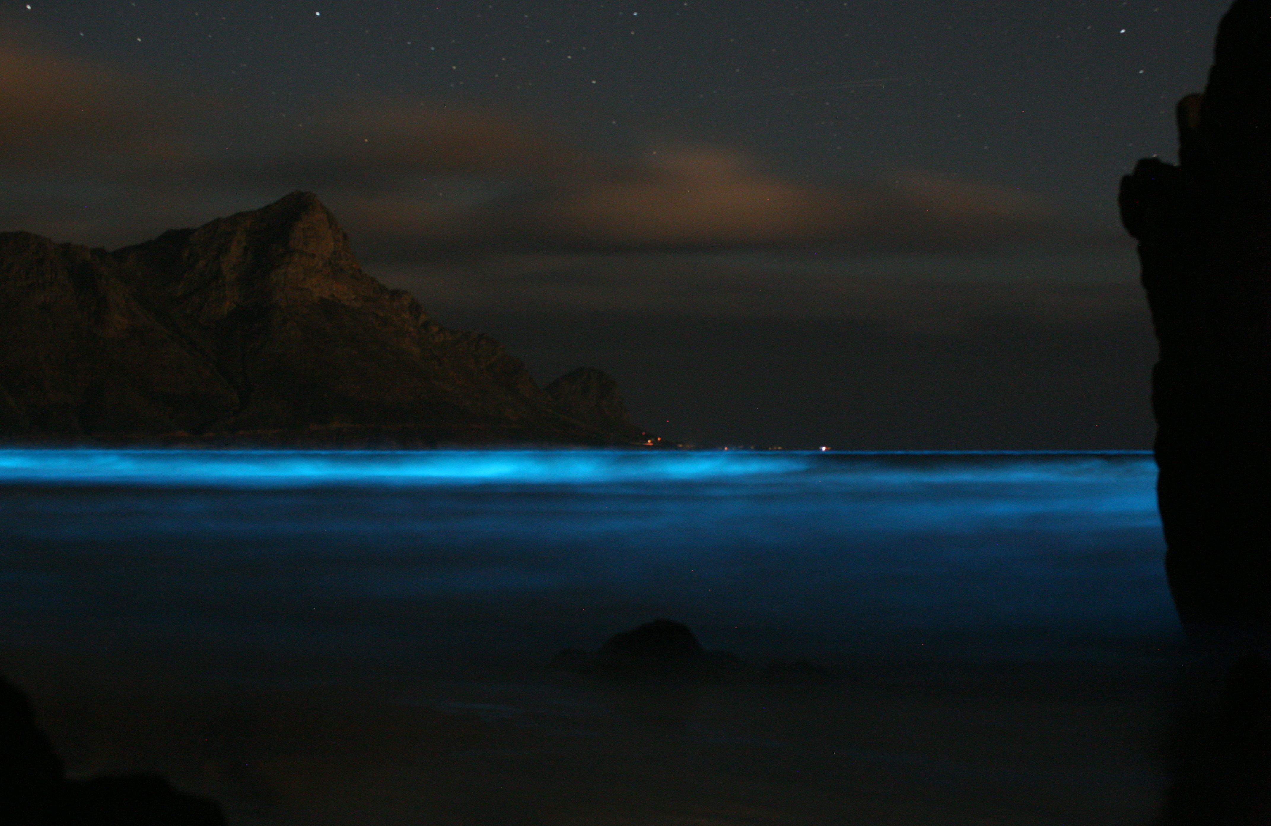 Blue Tide. Seasonal winds can cause the upwelling of nutrients which in turn can cause plankton populations to bloom as "red tides." Here, a dinoflagellate population (Noctiluca sp.) turns the ocean a luminous blue colour as the disturbance by the wind triggers a light-generating chemical reaction. The production of light is thought to attract fish predators that prey on potential predators of the dinoflagellates.